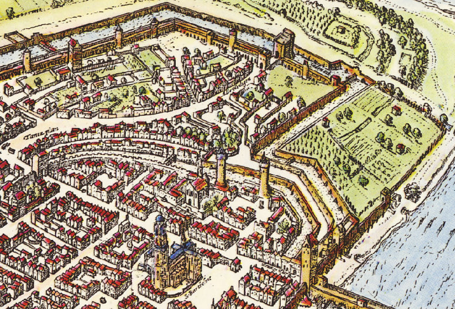 Crop of historical drawing, city of Frankfurt am Main, Hesse, Germany by Georg Braun and Frans Hogenberg (created between 1572 and 1618), focus on old jewish cemetery from 1180, Judengasse, Judenmarkt